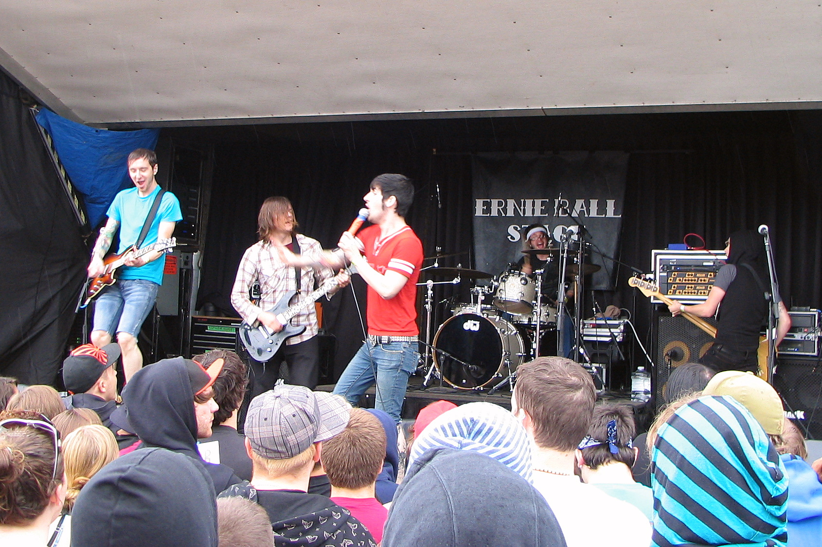 Honor Bright performing at the Vans Warped Tour in Buffalo, NY on July 24th, 2008.